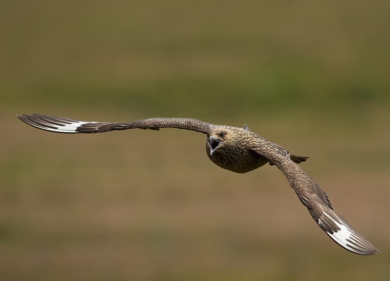 Stercorarius skua, Runde, Norway